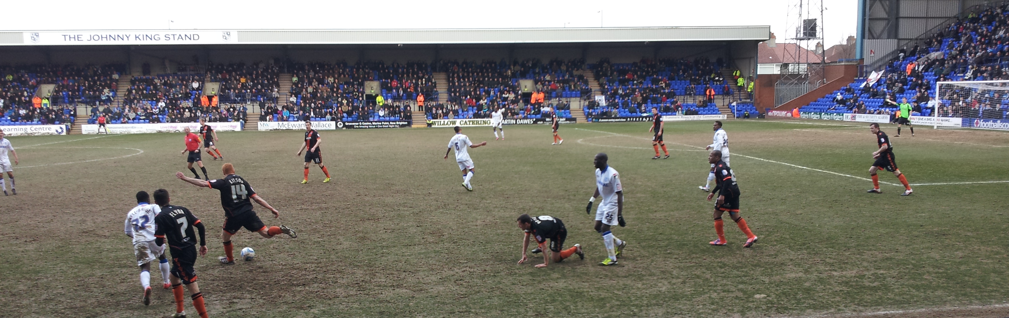 Tranmere Rovers V Sheffield United at Prenton Park 29 March 2013.